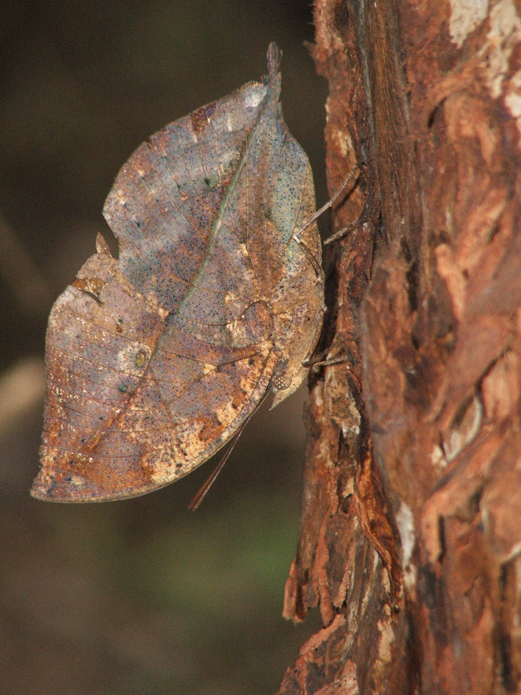 Clicked in Namdapha National Park, Arunachal Pradesh in November 2005 - Rahul K. Natu